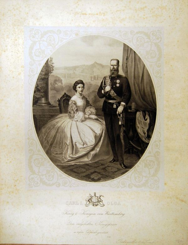 Queen Olga and King Charles I of Württemberg